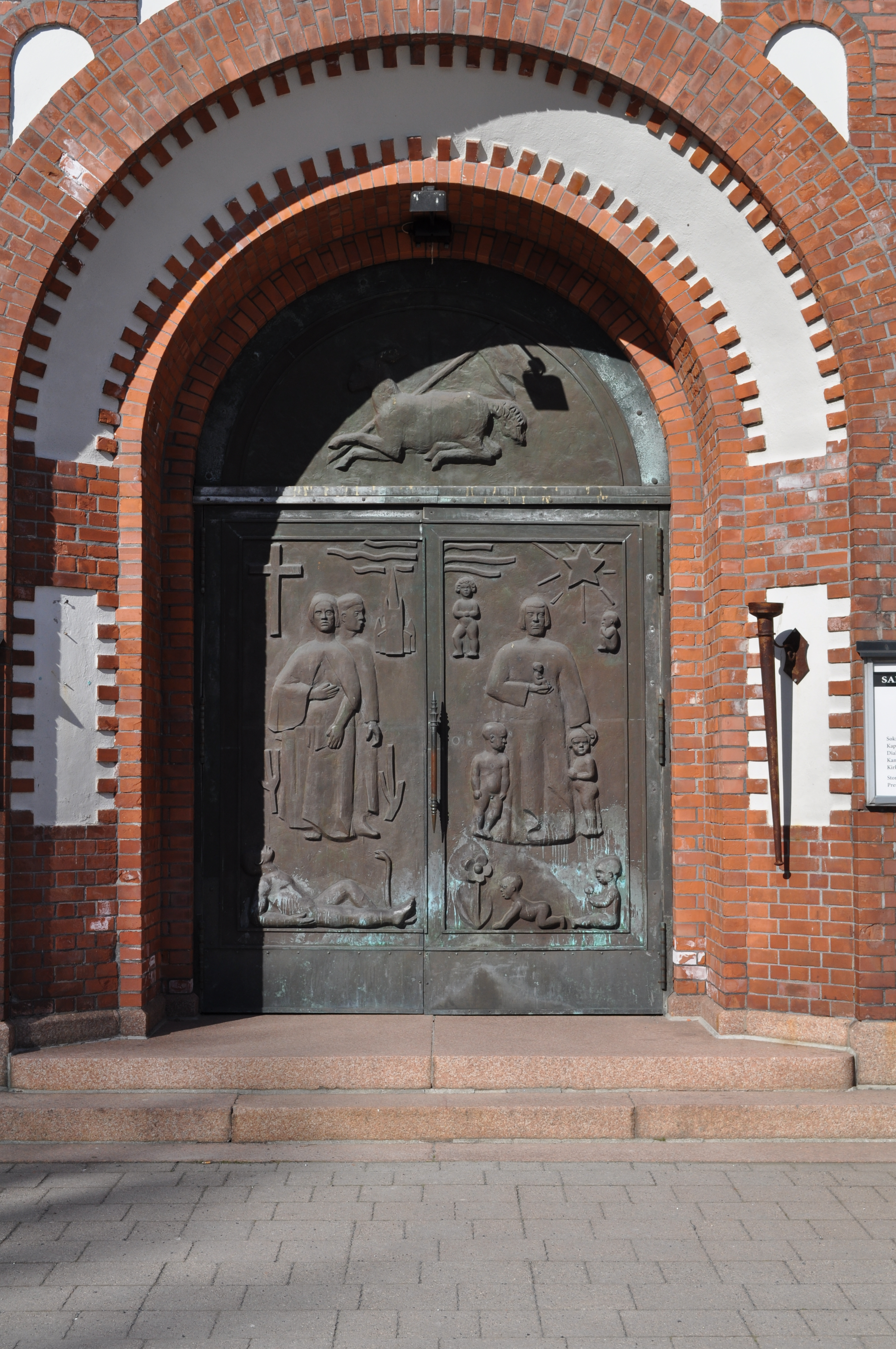 Church in Sandefjord